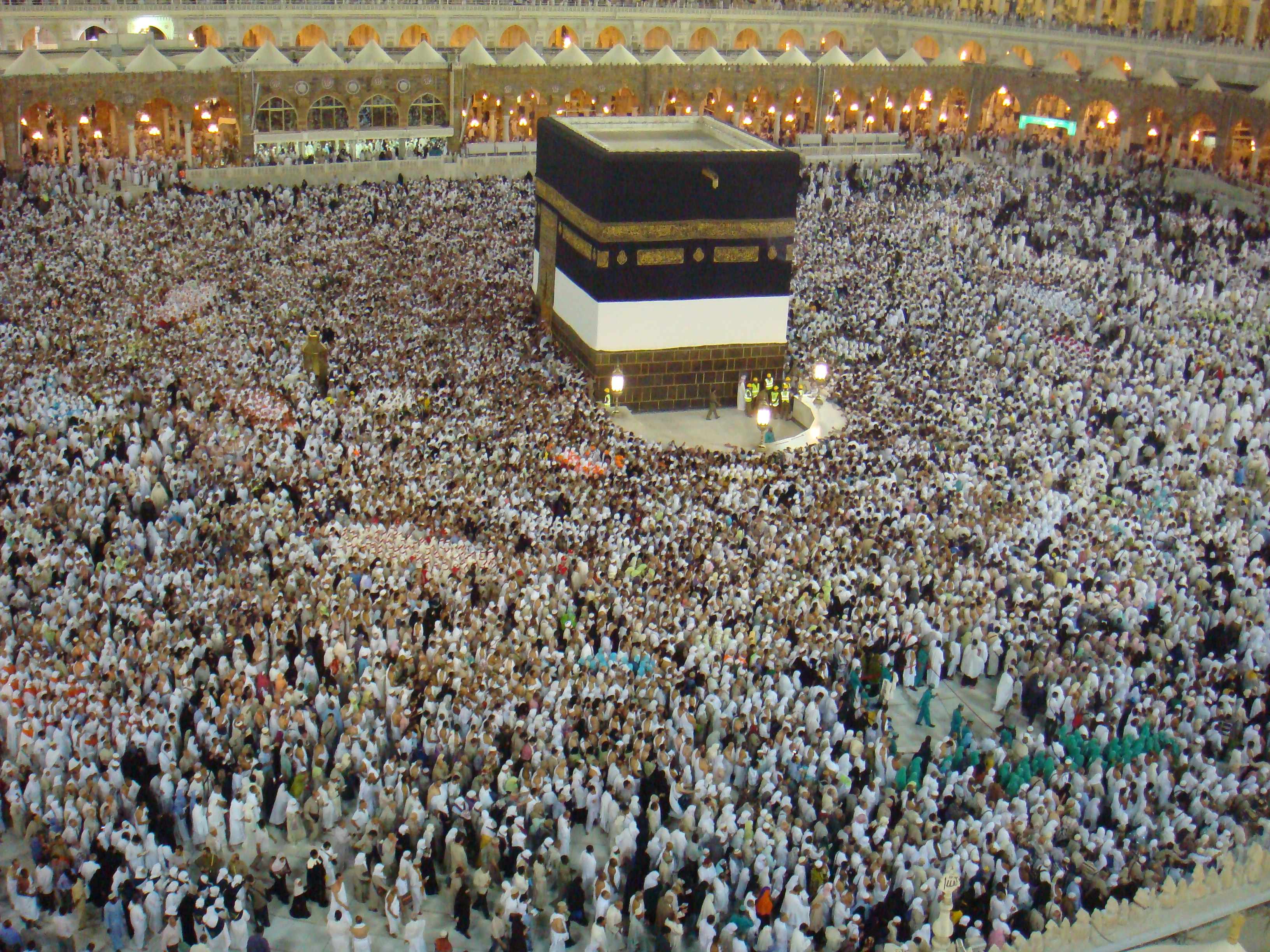 Hundreds throng around the Kaaba at the start of Hajj